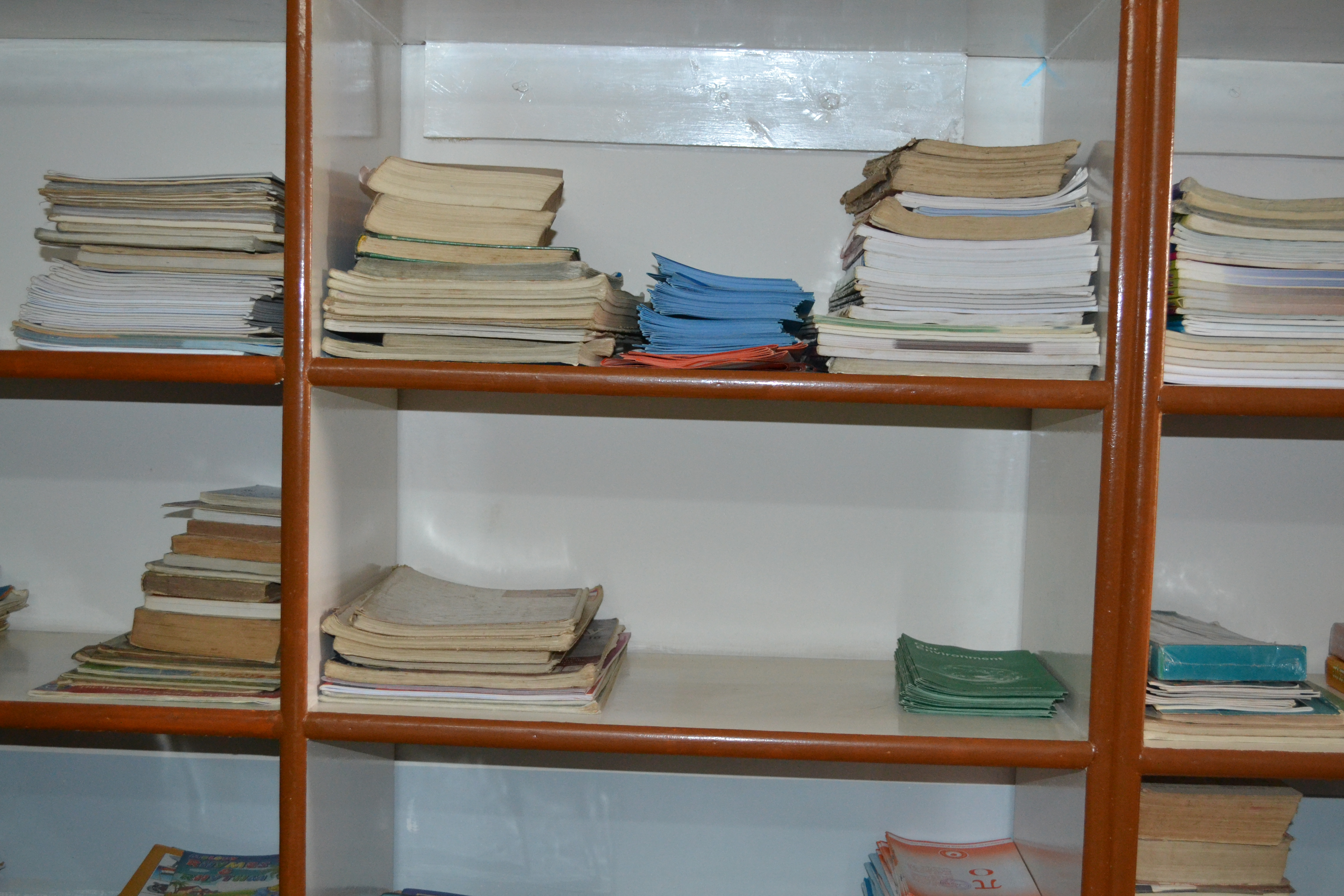 Mobile Library 2012 program by Singing Skylarks